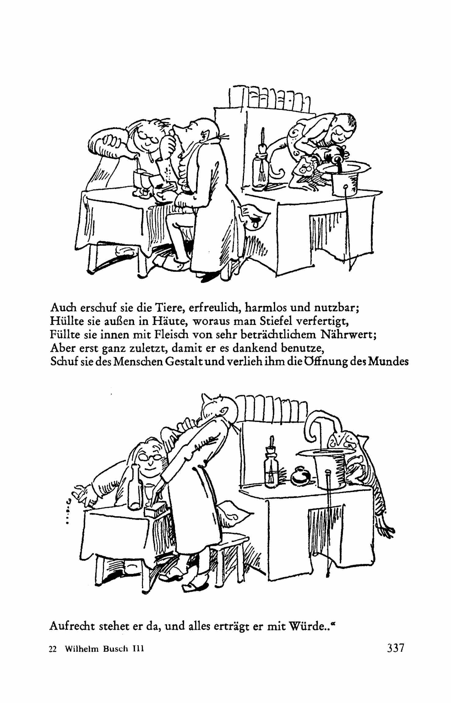 This is a scan of the historical document